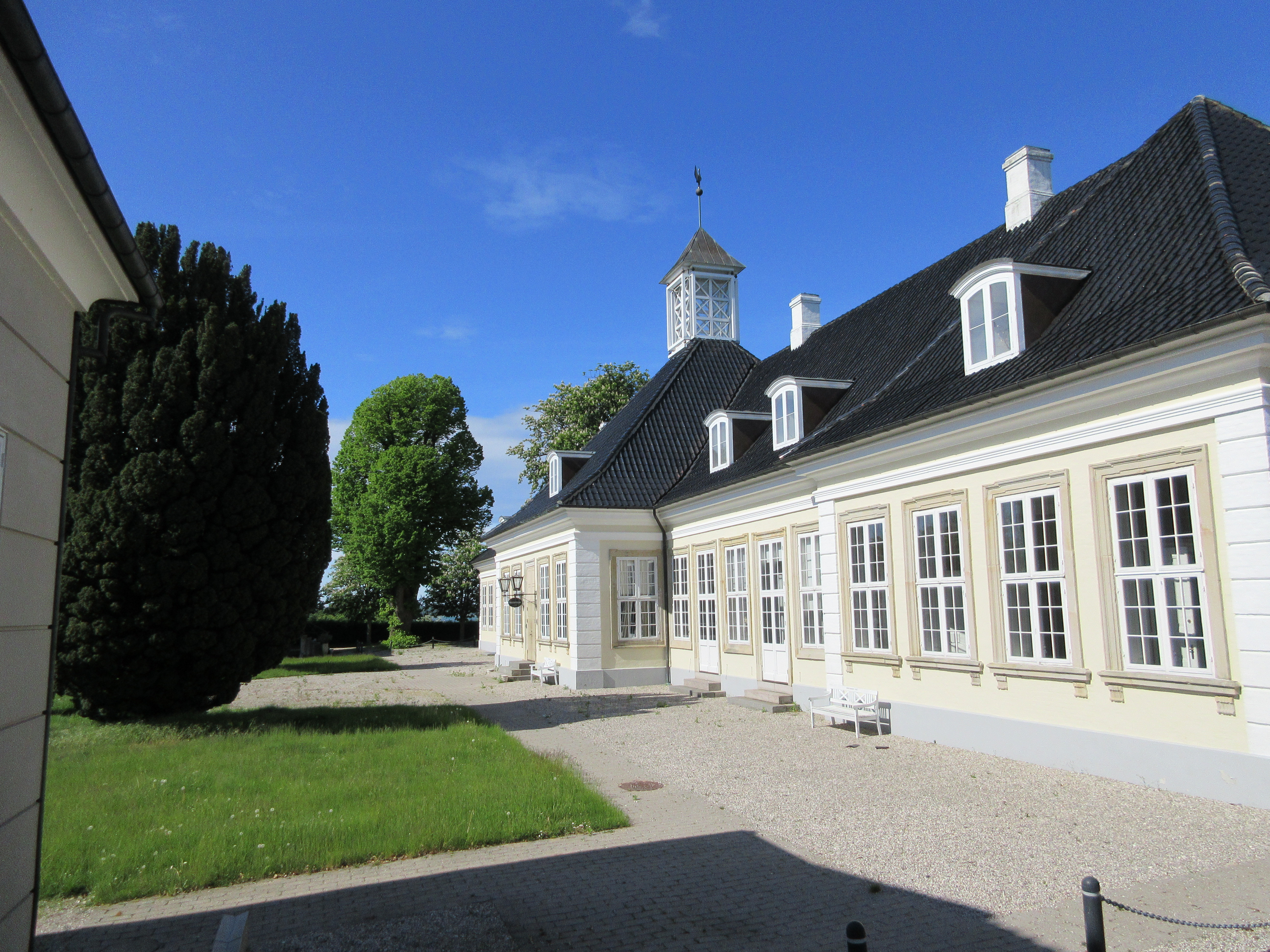 Sophienberg in Hørsholm, Denmark